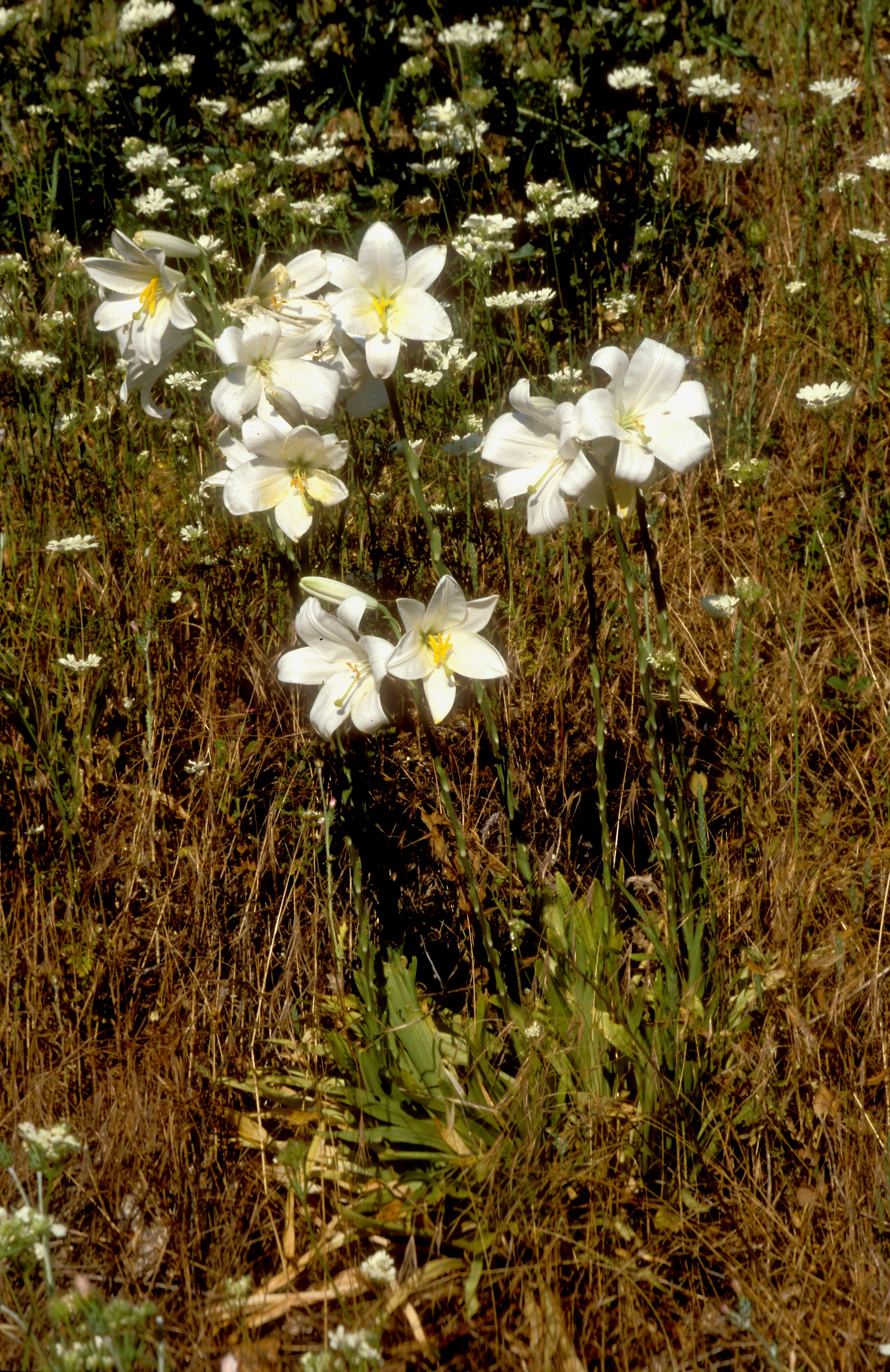 Lilium candidum in habitat at Konitsa, Greece